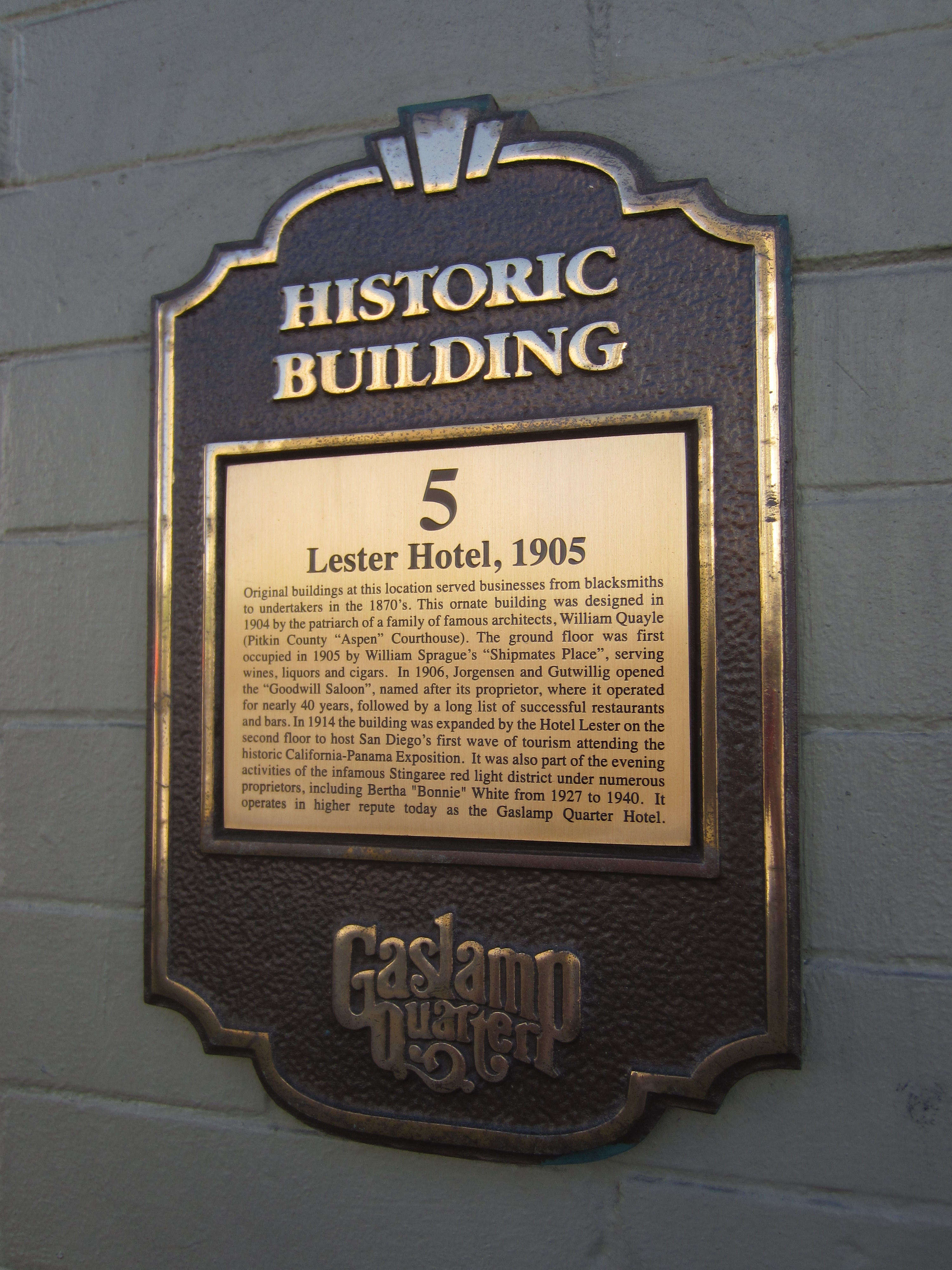 Lester Hotel, San Diego, 2016